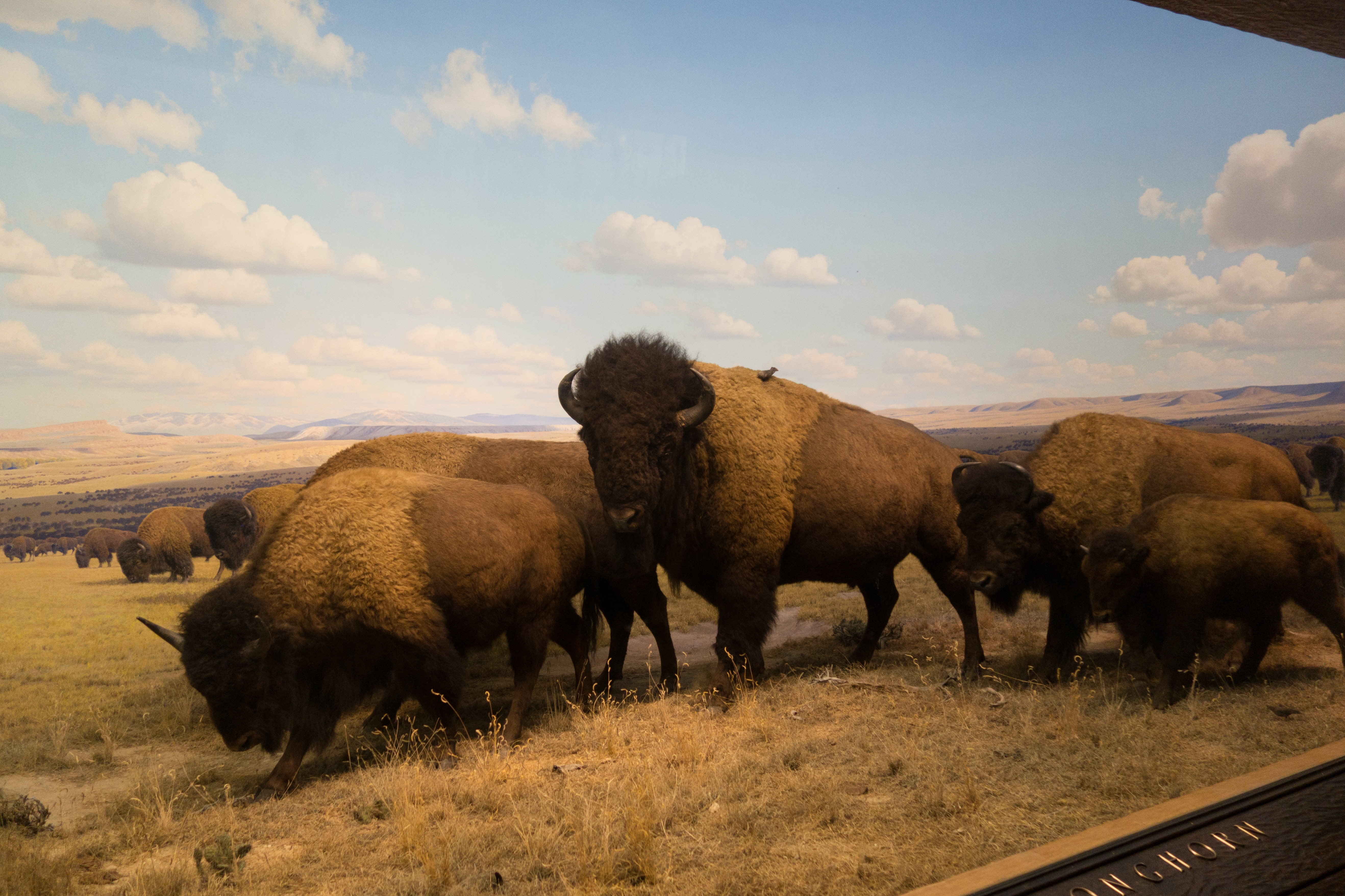 American Museum of Natural History, New York City, 2015